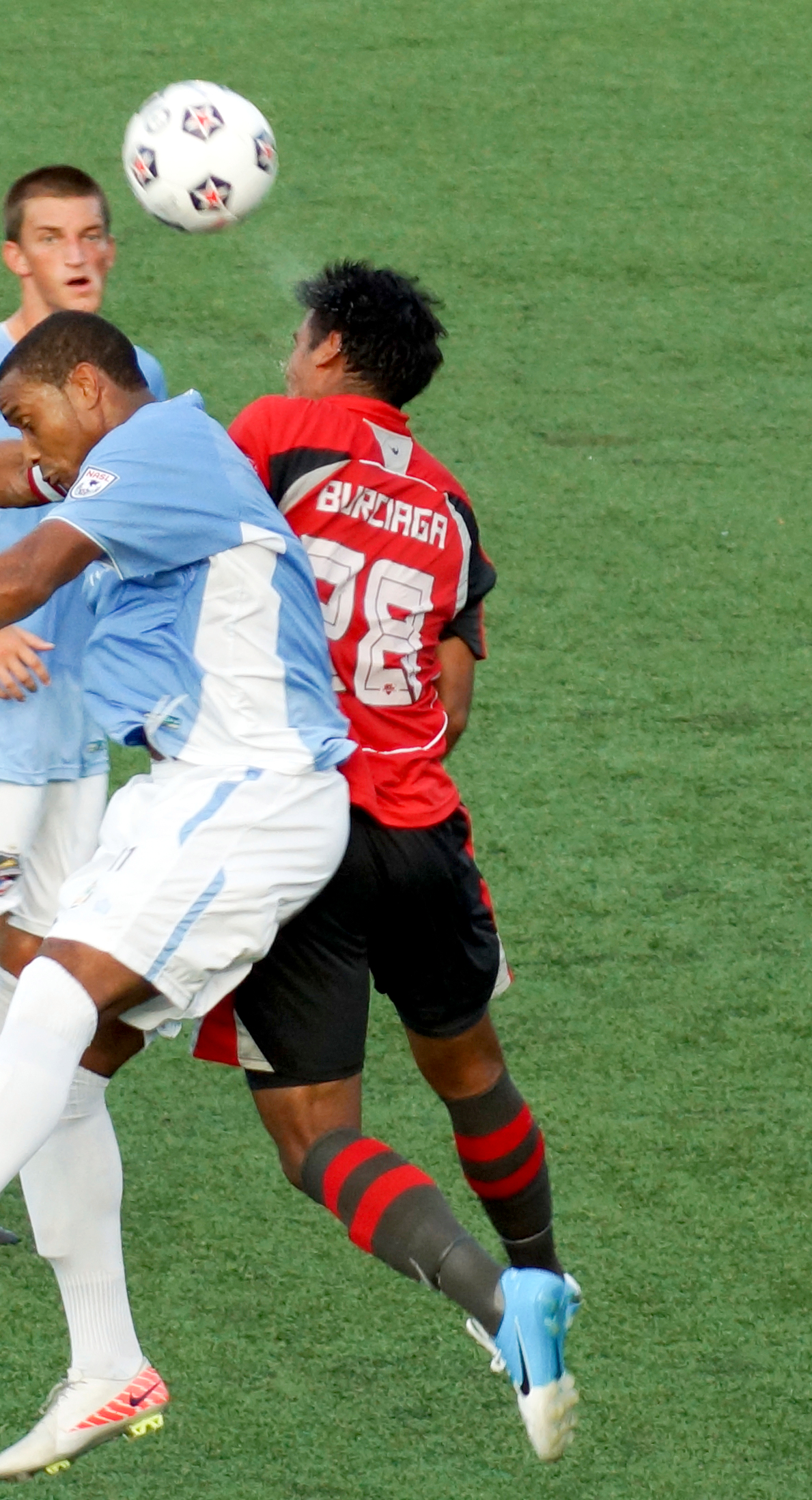 José Burciaga Jr. - 2012-07-14 - Atlanta Silverbacks